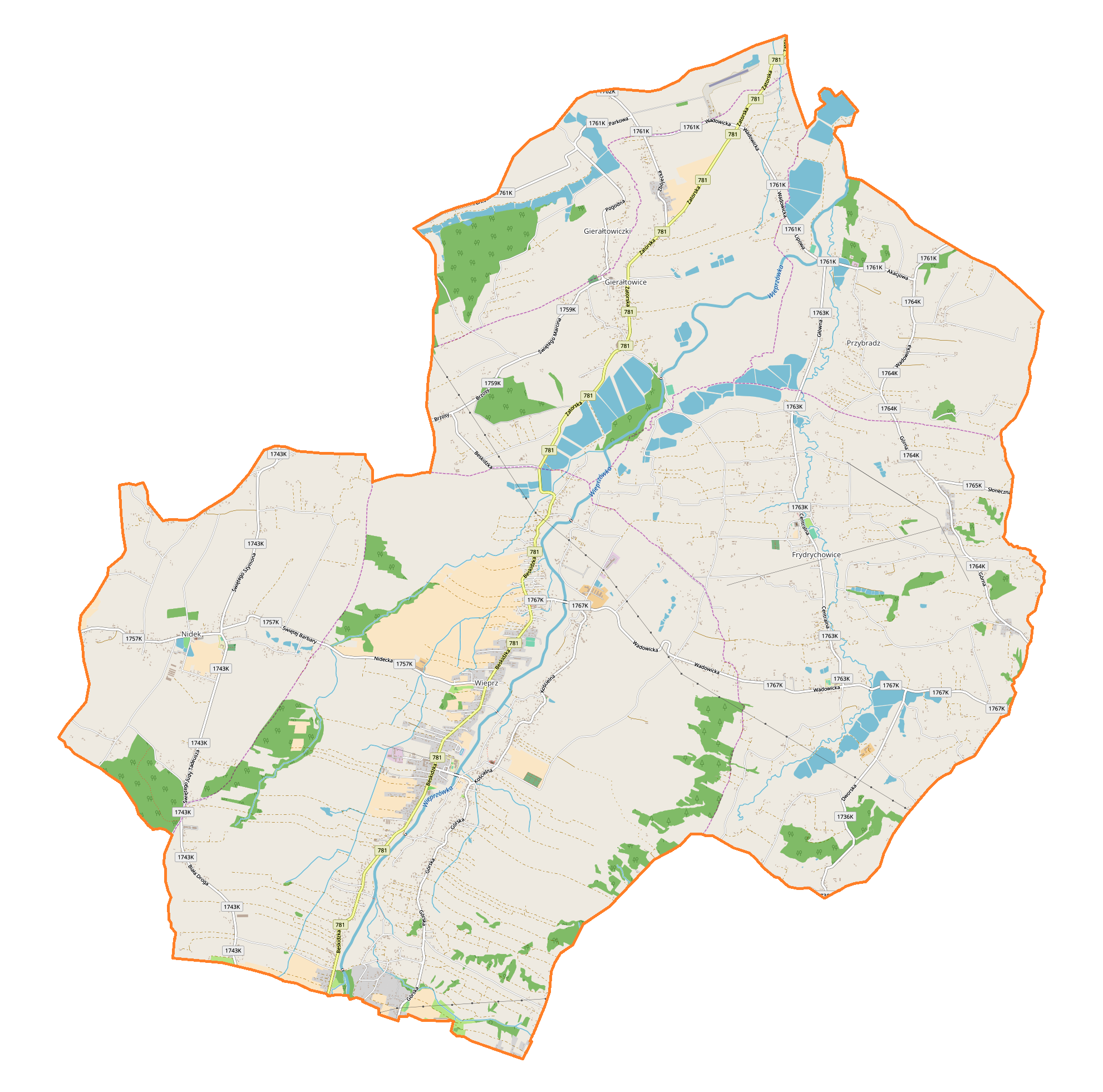 Location map